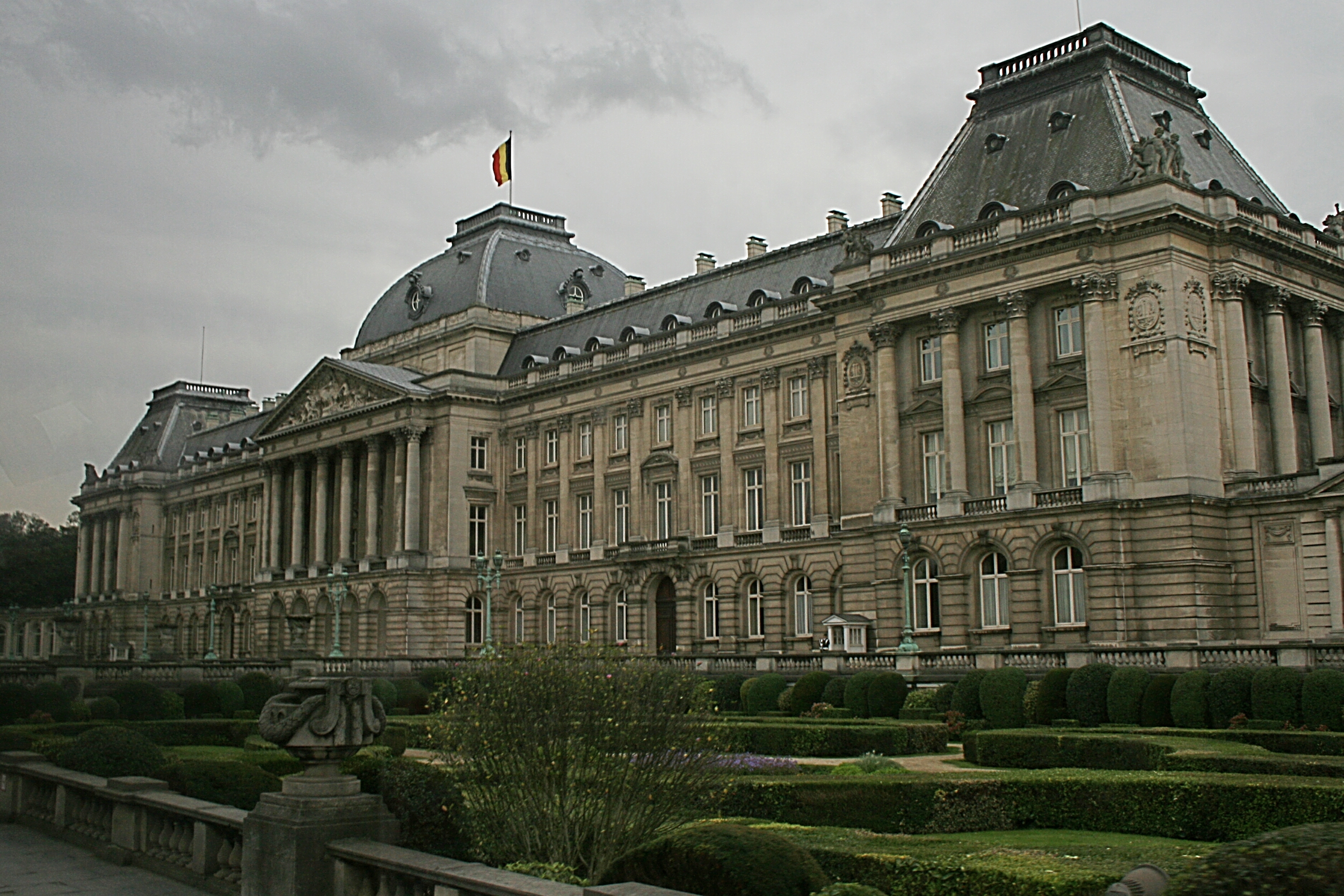 Exterior of the Royal Palace, Brussels in 2011